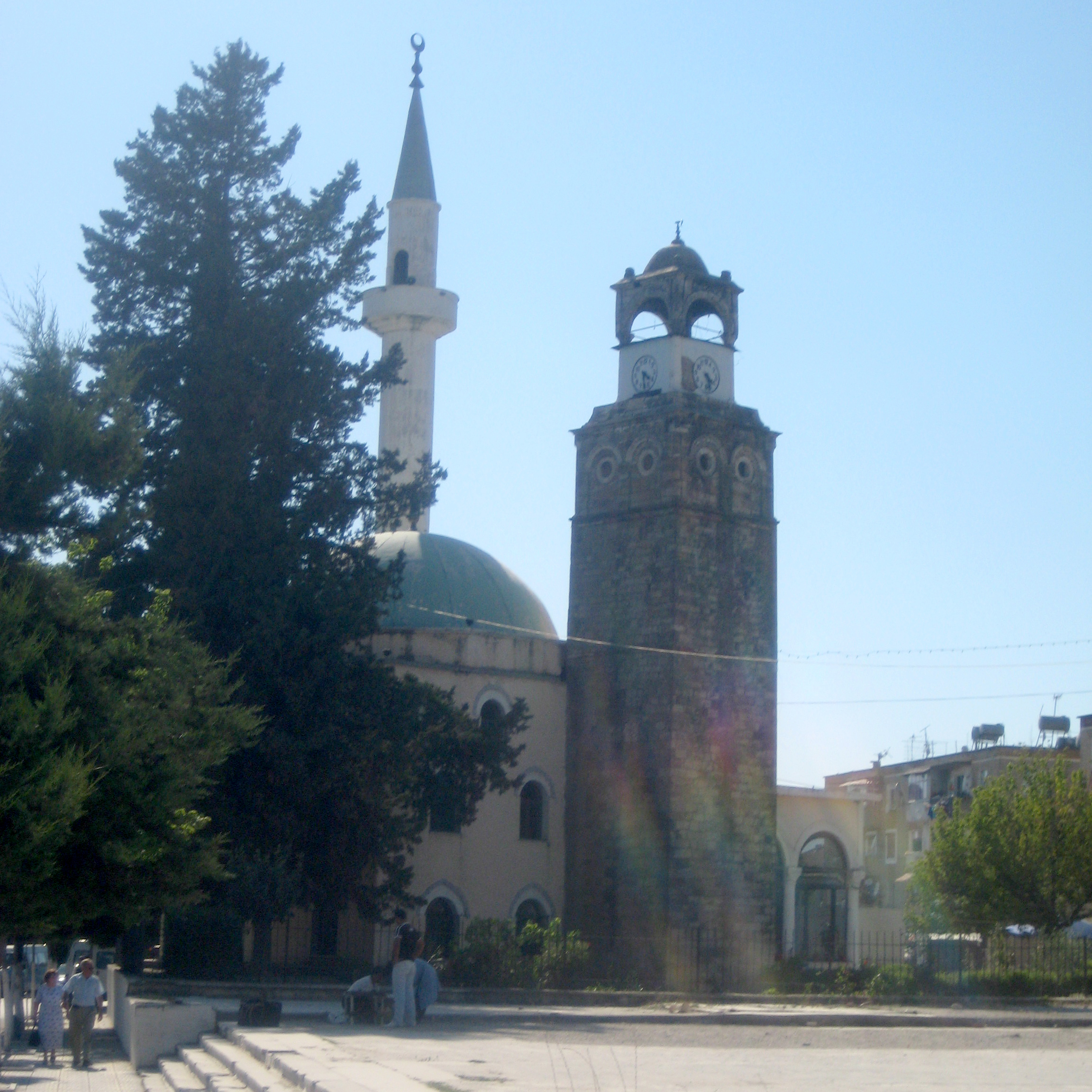 Mosque and Clock Tower in the Center of the Albanian Town of Peqin